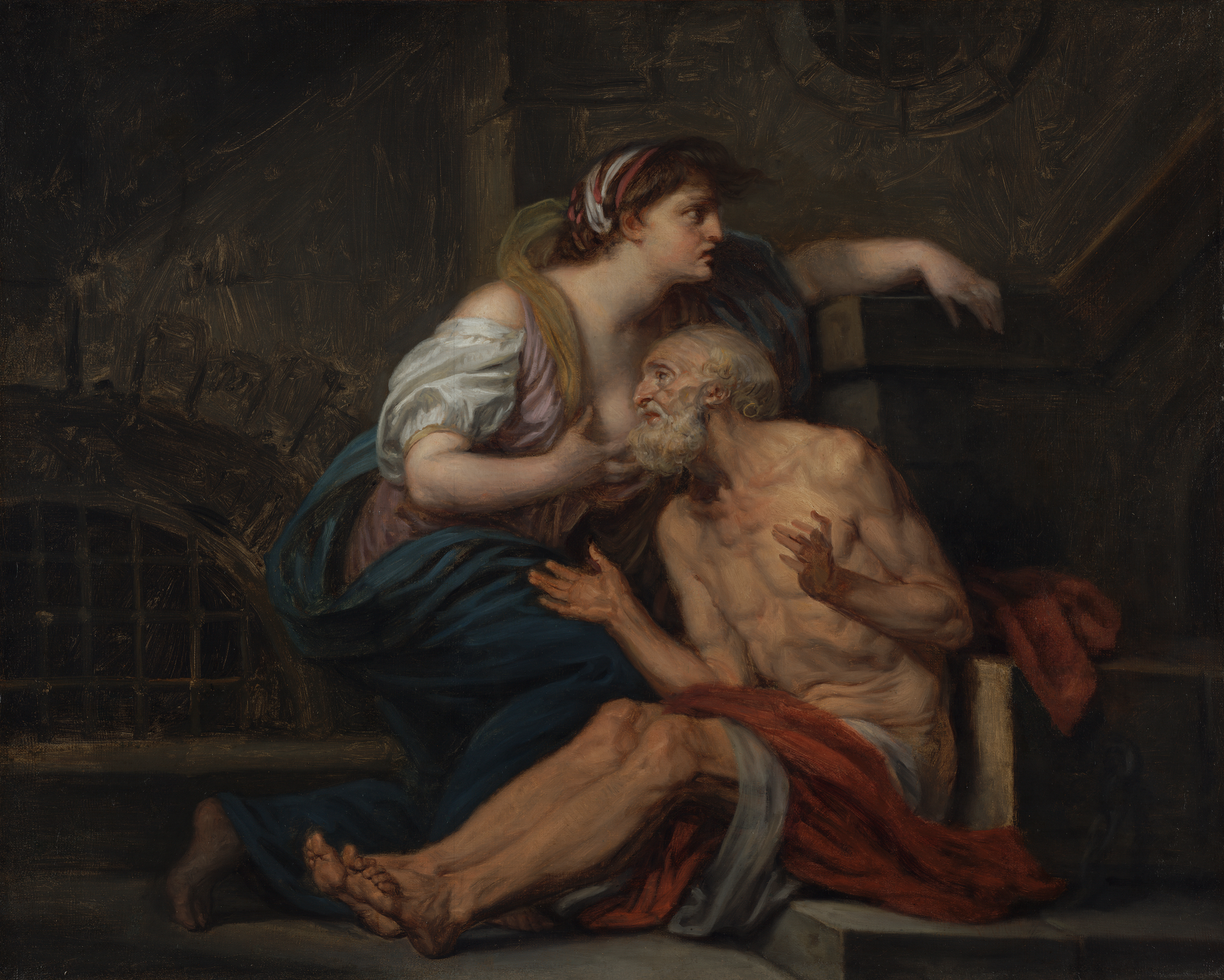 Cimon and Pero: Roman Charity by Jean-Baptiste Greuze, c. 1767, Getty Center.